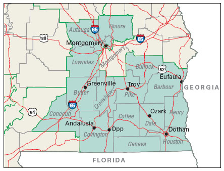 Alabama's 2nd district.